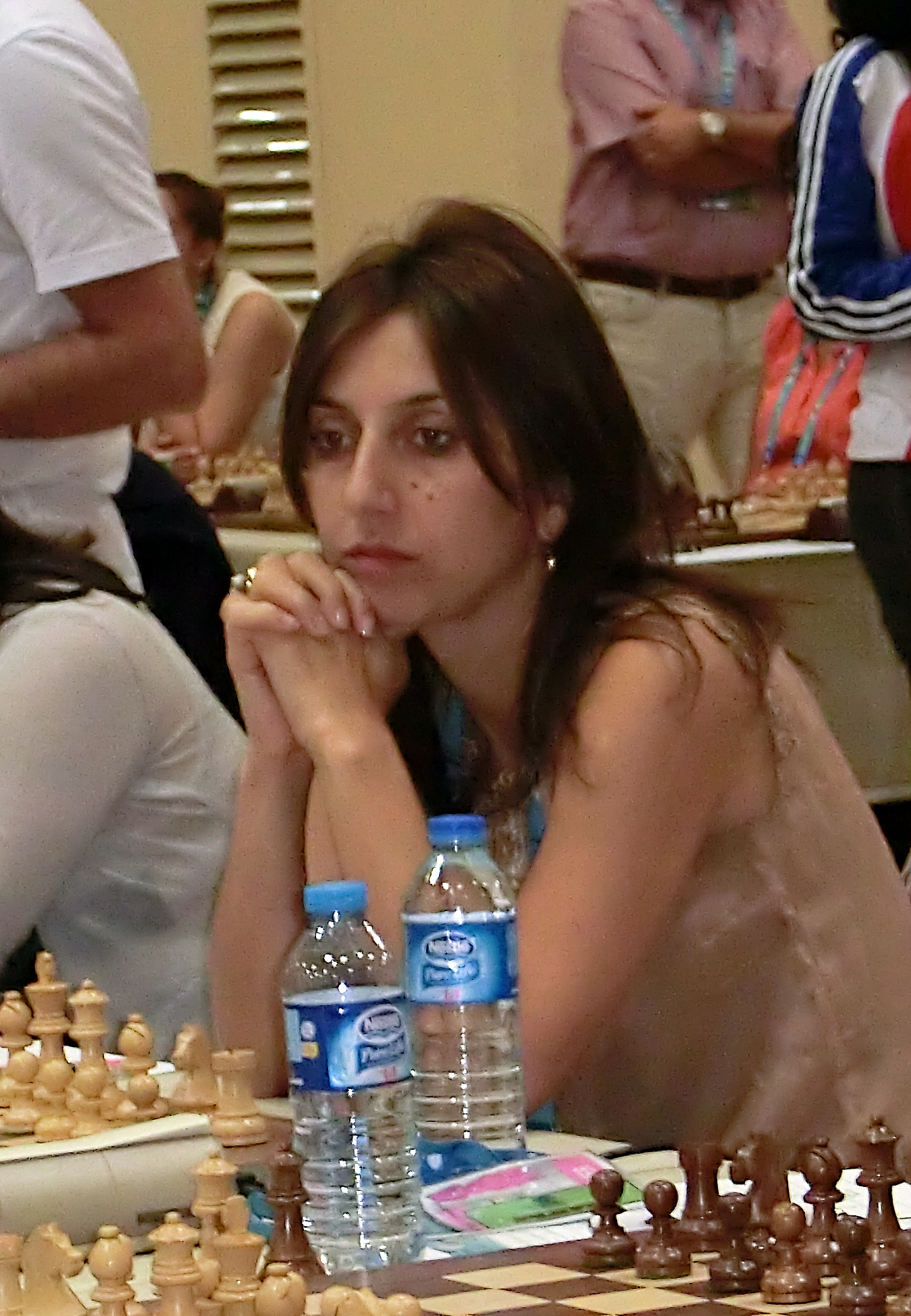 Lela Javakhishvili, chess player (women grandmaster) from Georgia